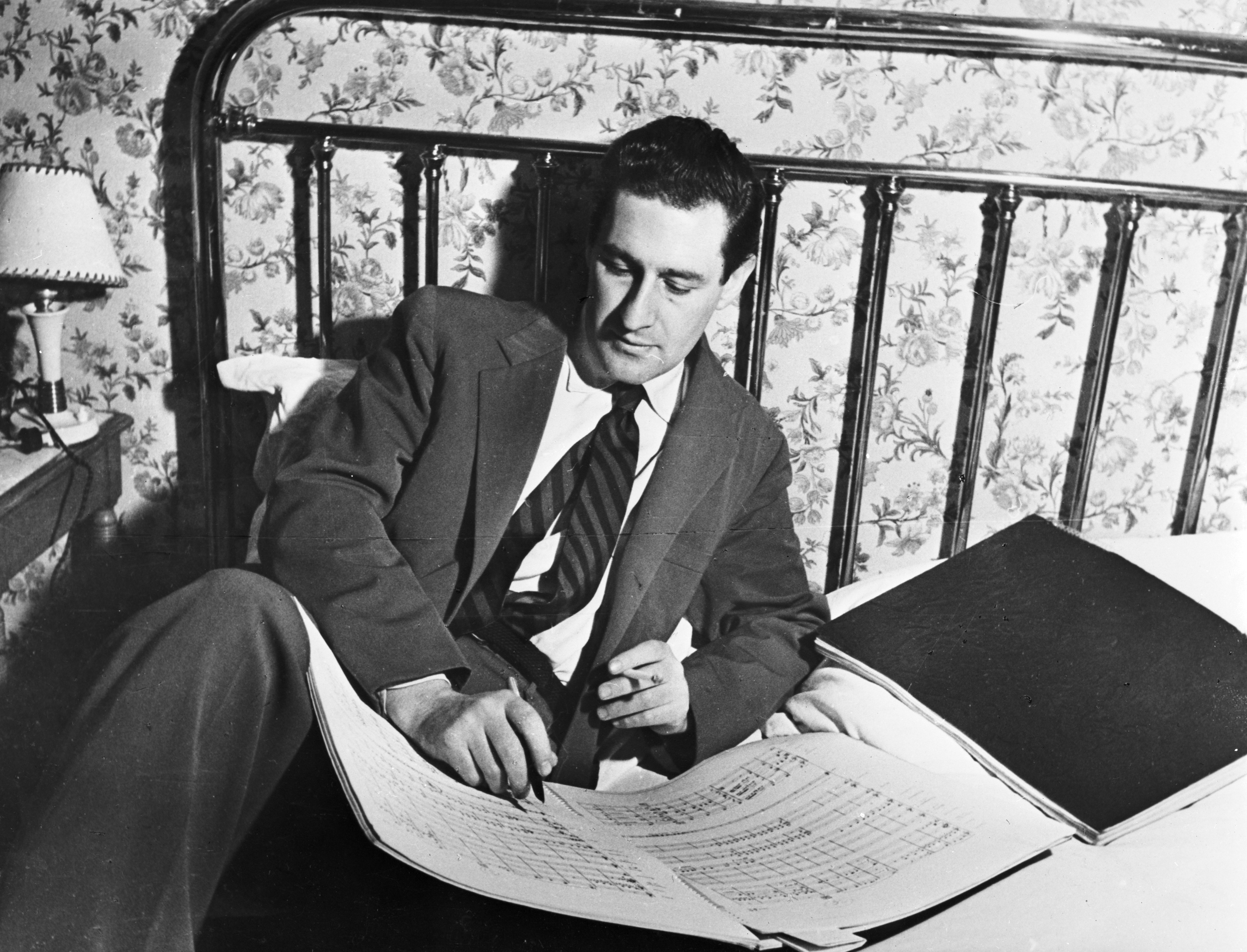 Composer Menotti Paris (France) Series: Photographs of Marshall Plan Programs, Exhibits, and Personnel, 1948 - 1967